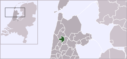 Locator map of Dutch municipalities in Noord-Holland (LocatieLangedijk.png)